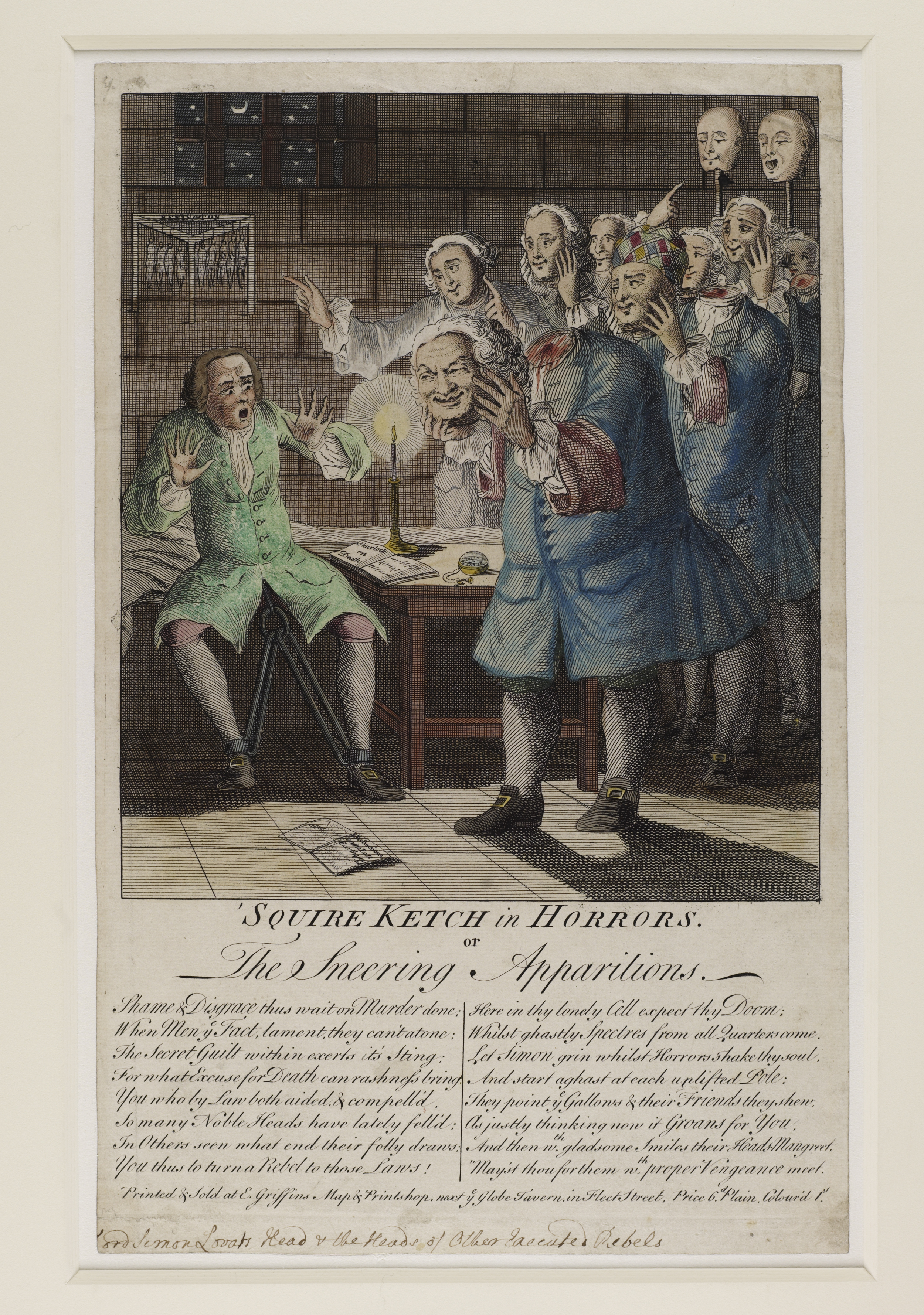 8 1/2x 9 1/2 coloured portrait of headless rebels, led by Simon Fraser of Lovat scaring a man sitting on a bed in chains in a cell. With a picture of scaffold and many men hanging from it in back left corner. "Printed and Sold at E. Griffin’s Map and Print Shop, next ye Globe Tavern, in Fleet Street, Price 6.d Plain, Coloured 1.s" According to the Oxford Dictionary of National Biography, the man is John Thrift (d. 1752), public executioner and murderer and the cartoon shows: 'Thrift in the condemned cell recoiling in terror as his Jacobite victims confront him, led by the three lords [Lovat, Balmerino and Kilmarnock], their grinning severed heads in their hands.' Others depicted may include Charles Radcliffe and some of the nine members of the Manchester Regiment, including Francis Towneley and George Fletcher, who were ‘hung, drawn and quartered’ by Thrift at Kennington on Wednesday July 30th 1746.